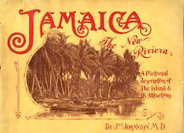 Jamaica The New Riviera By James Johnston, was a Scotsman who made his home in Brown's Town when he came to Jamaica in 1874, and who founded the Jamaica Evangelistic Mission. Johnston was a keen photographer and he published in 1903, Jamaica: The New Riviera.